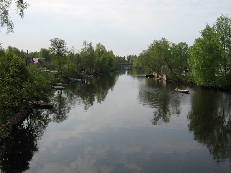 Seleznevka river